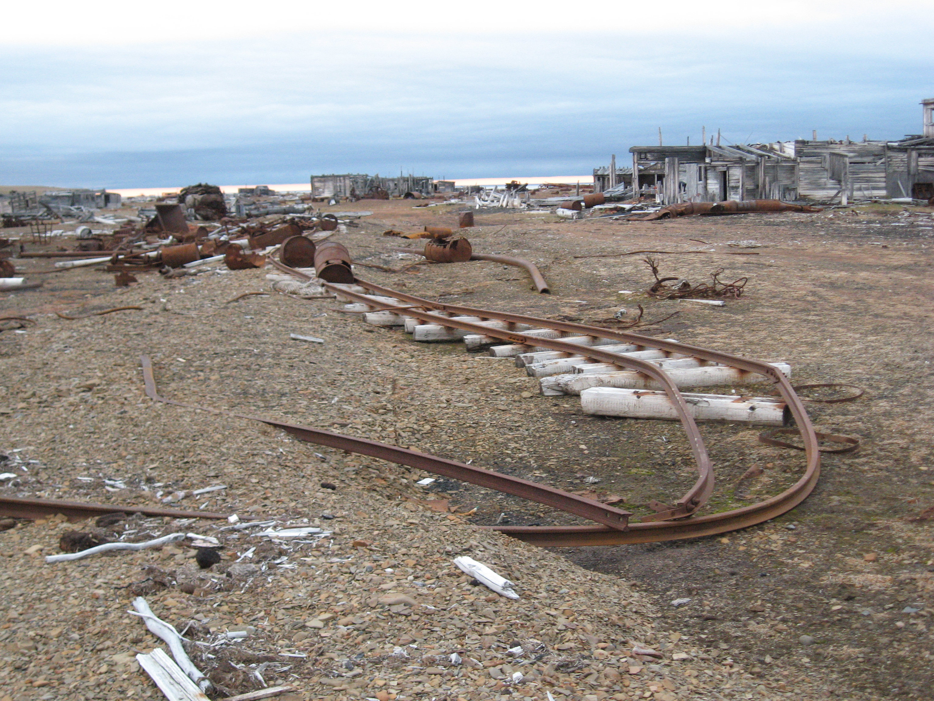 Nordvik Ruins